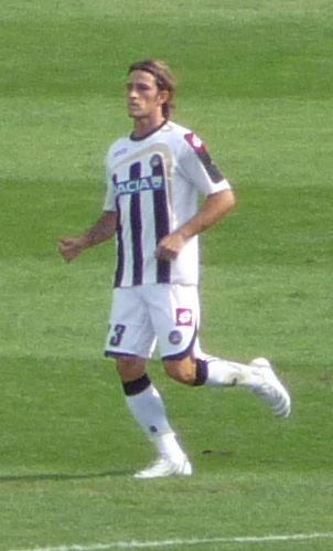 Udinese - Catania 4-2 13/09/2009